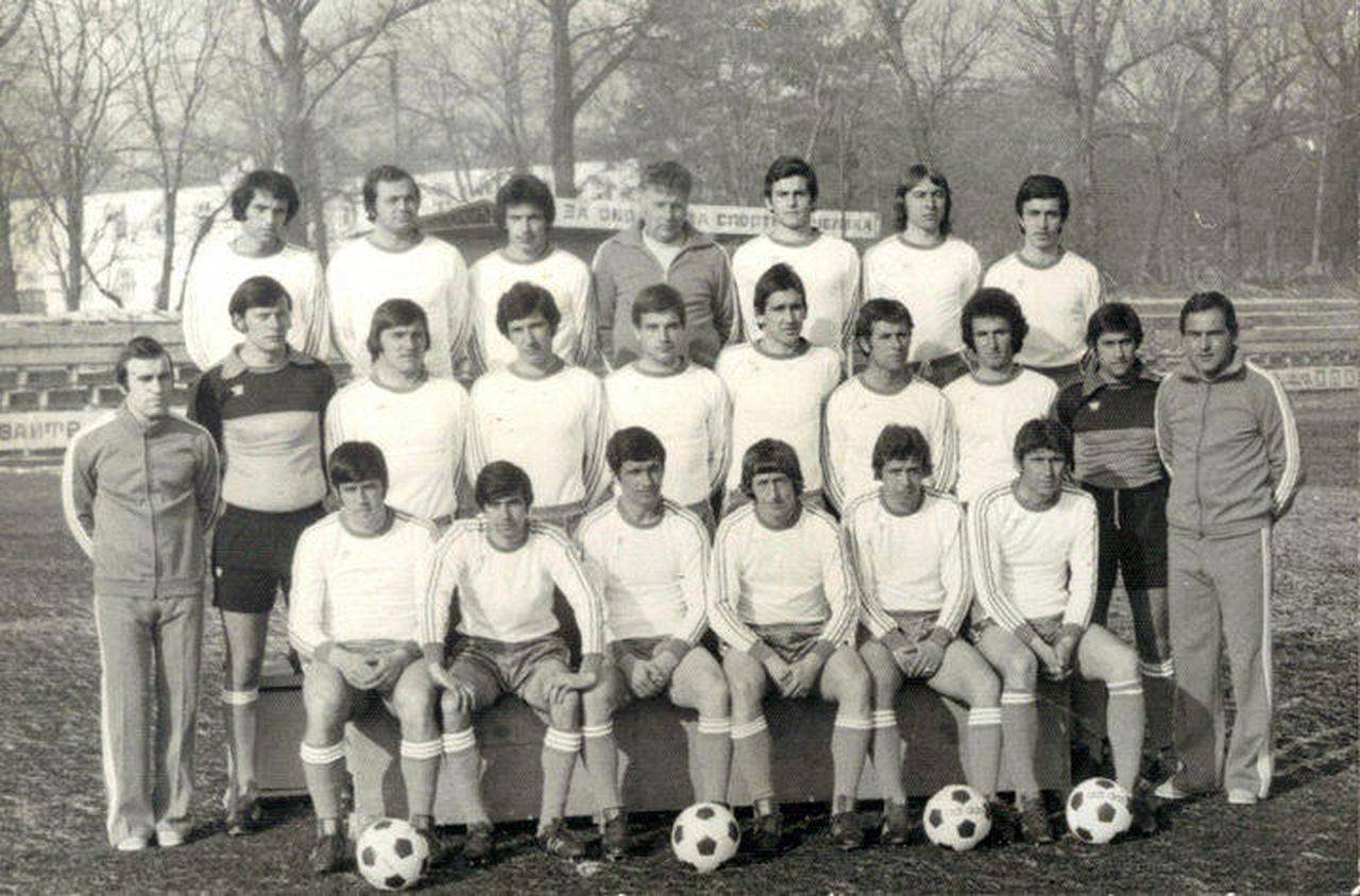 Football team "Slivnishki geroi" Slivnitsa, Bulgaria.